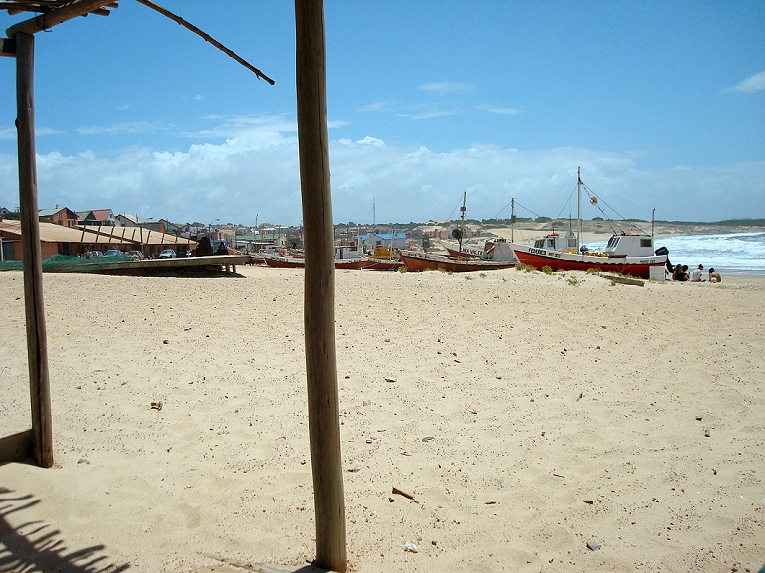 Punta del Diablo, Rocha Department, Uruguay.